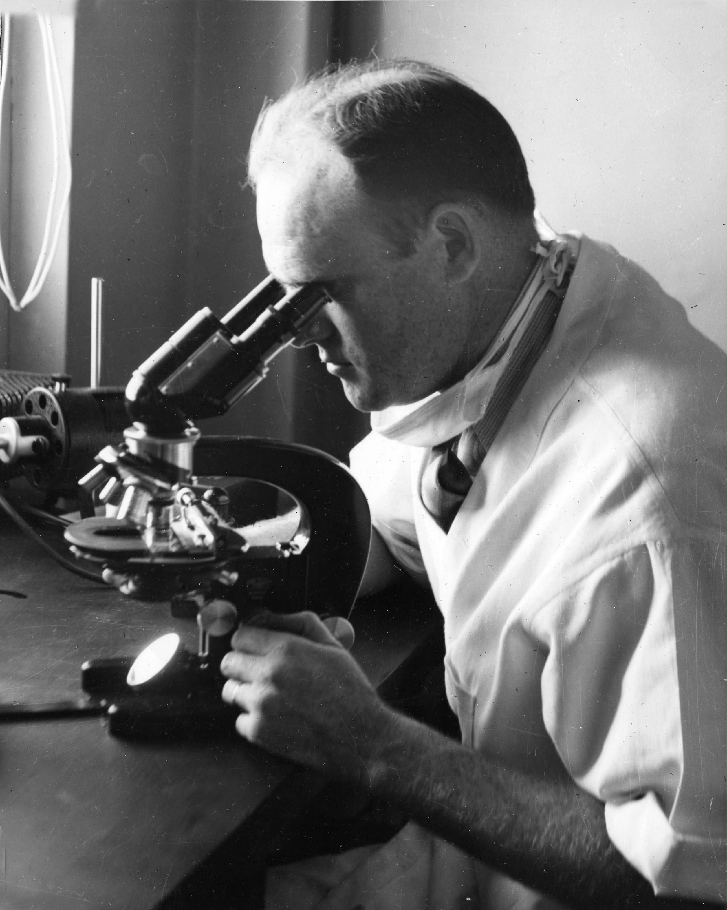 Dr. Cox at the microscope.